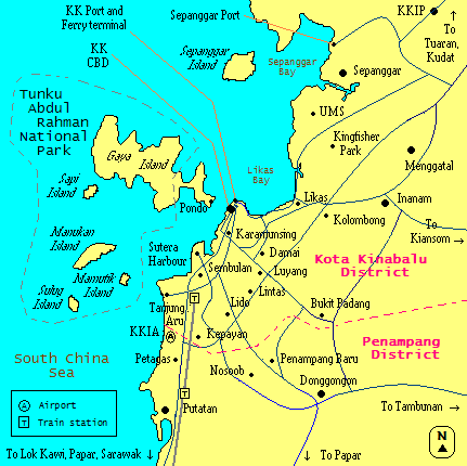 created using and Microsoft Paint